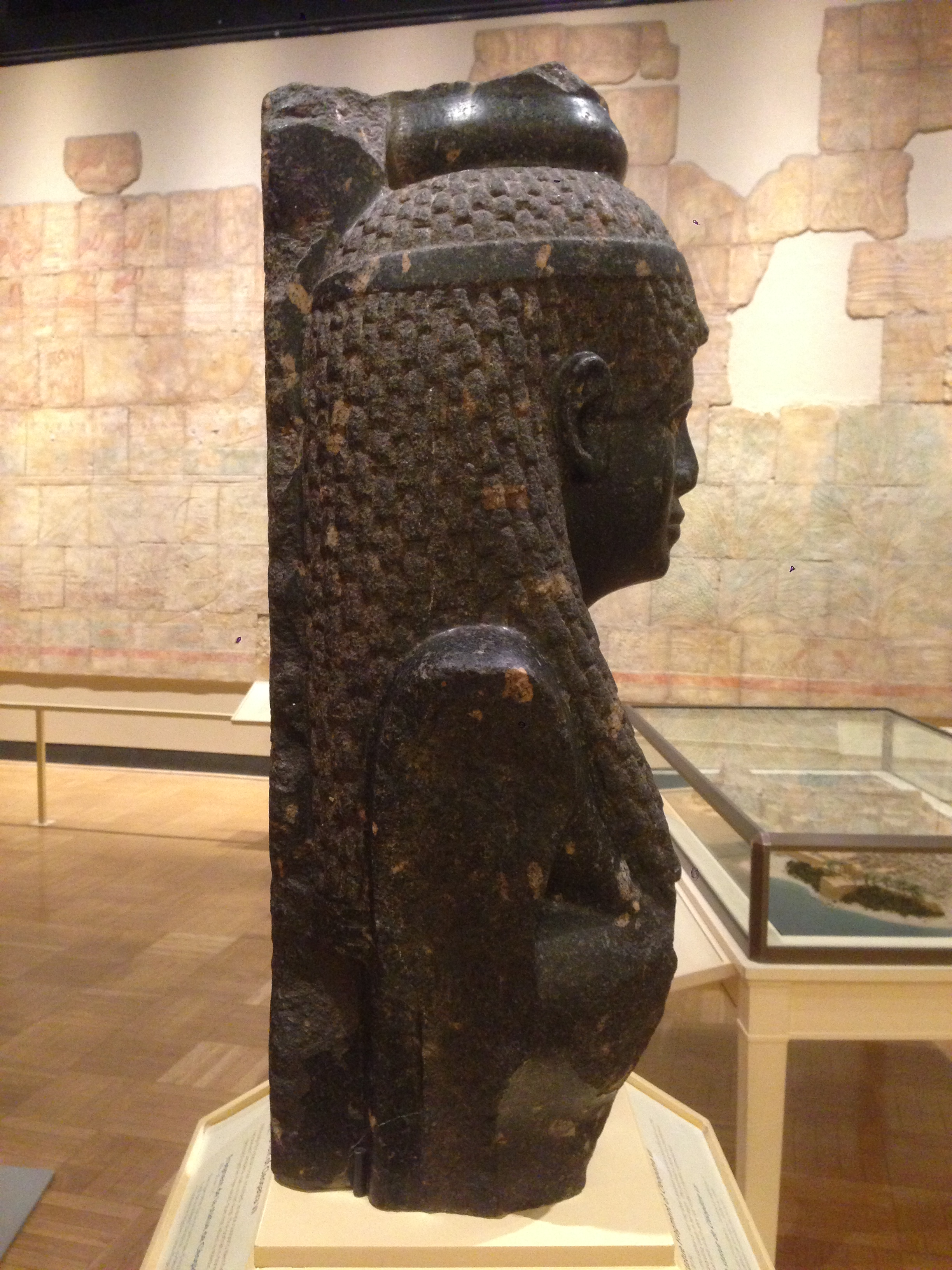 Side profile of the bust of Cleopatra at the Royal Ontario Museum